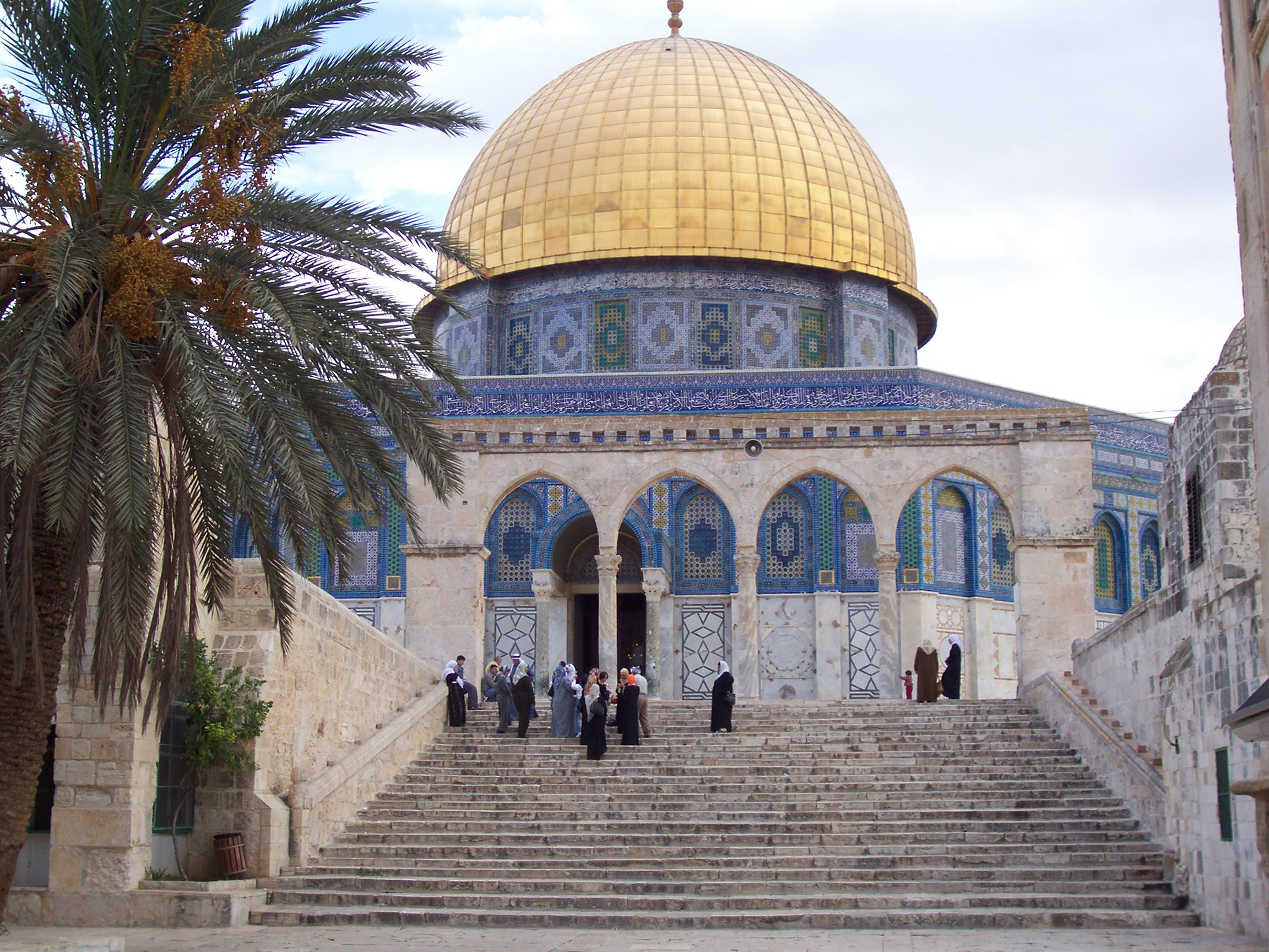 Dome of the Rock from west